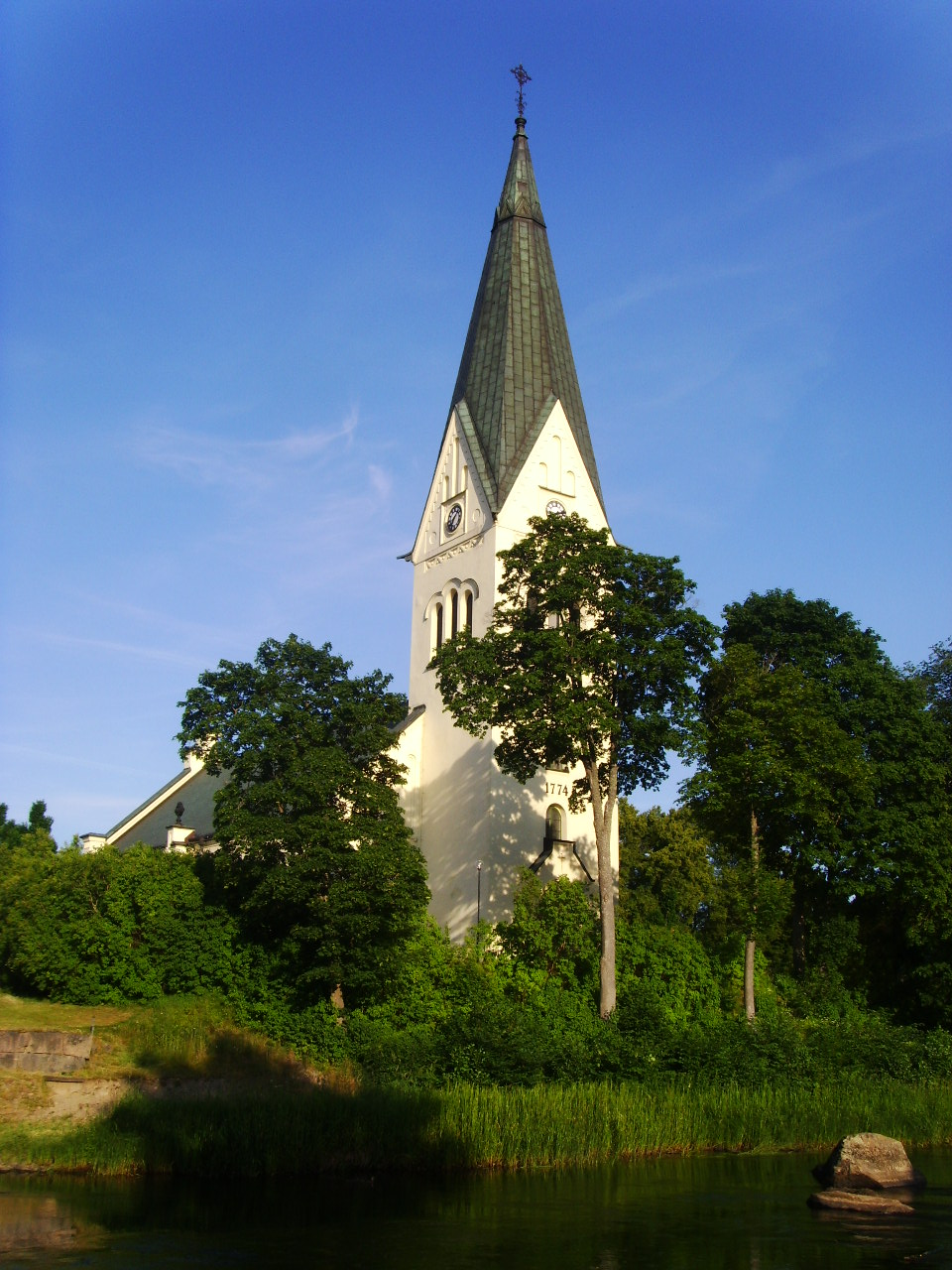 The church in Högsby, Sweden.